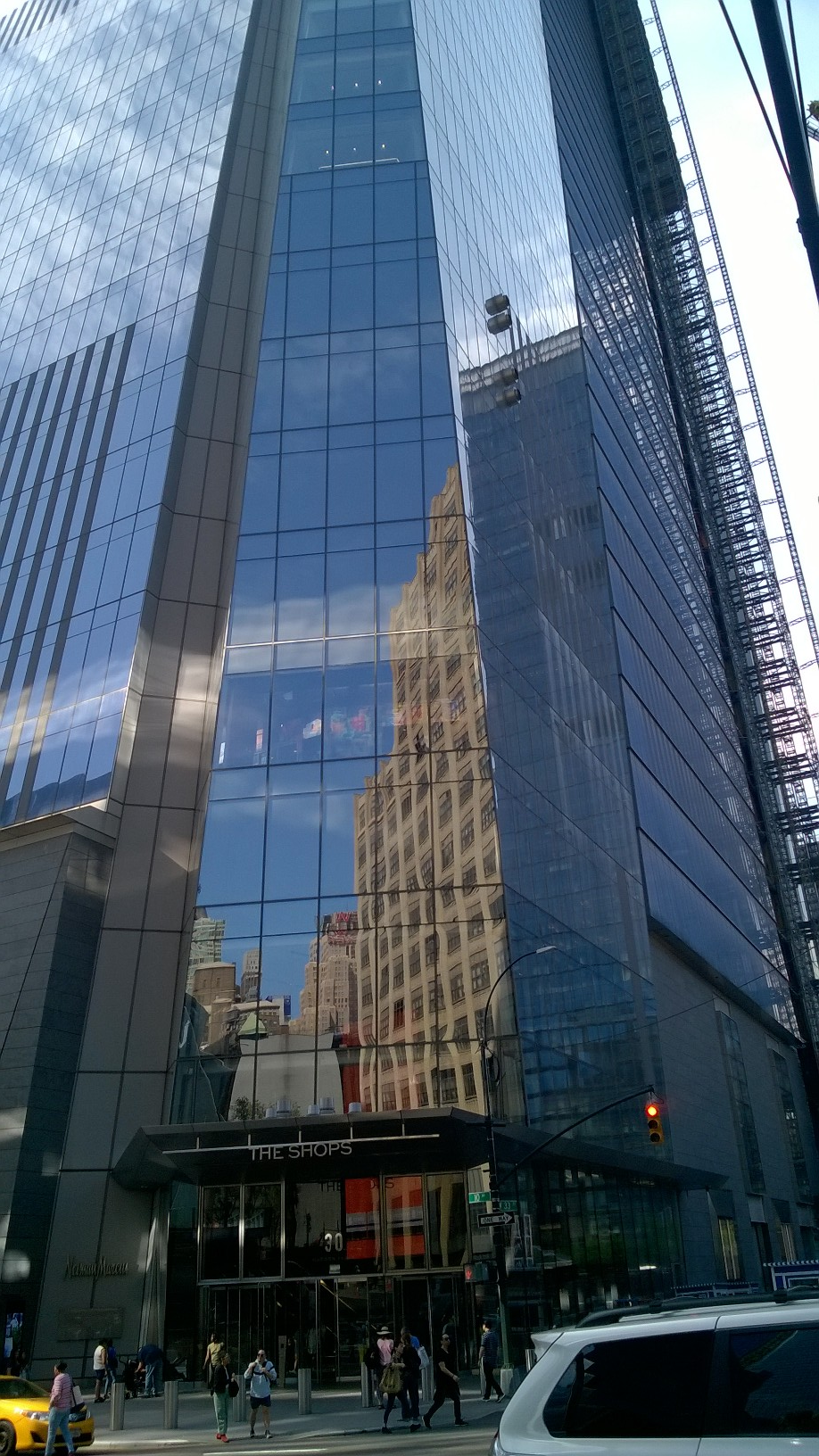 Exterior shot of the entrance to the Hudson Yards Mall on May 25, 2019.